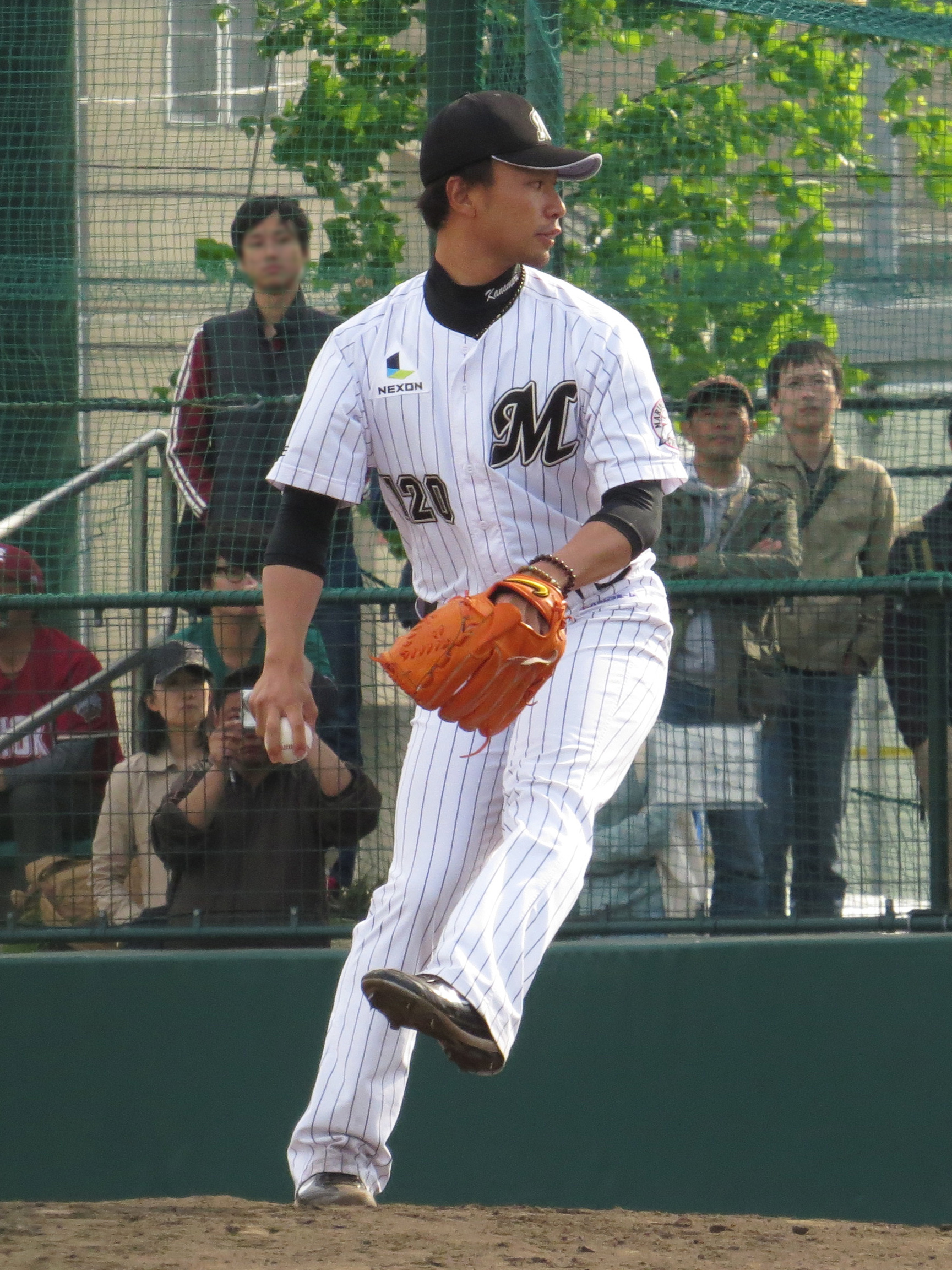 Takayuki Kanamori, pitcher of the Chiba Lotte Marines, at Lotte Urawa Baseball Ground.